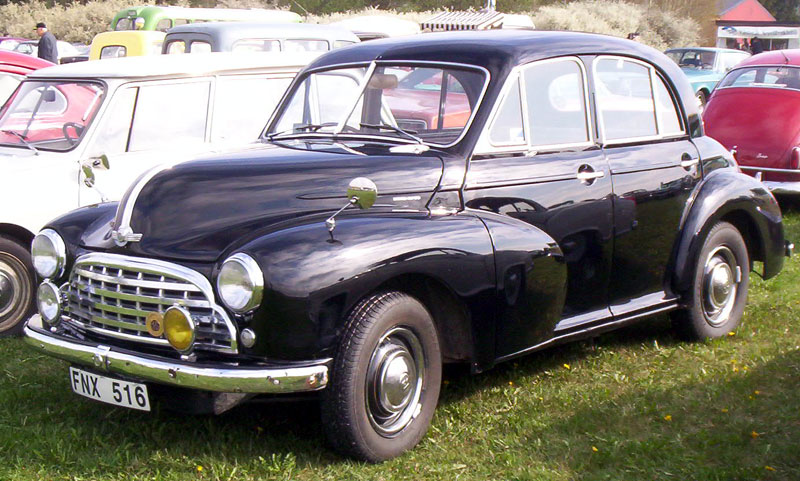 Morris Oxford 4-Door Saloon 1950